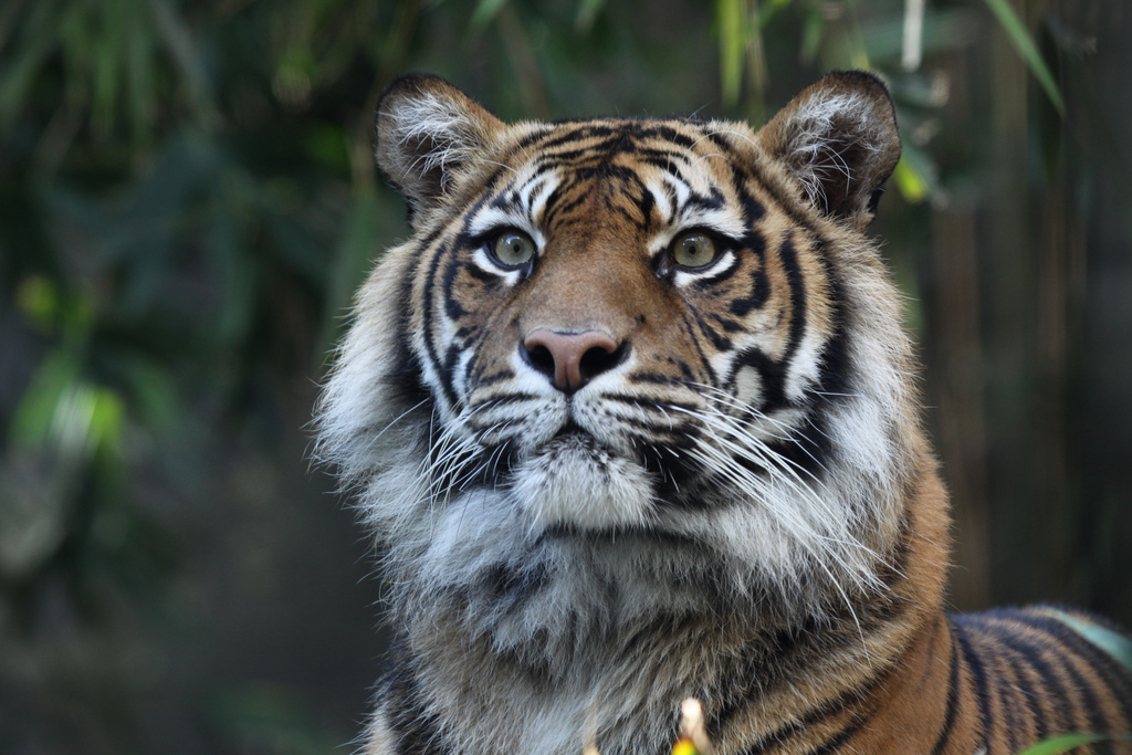 He/she was looking at a bunch of noisy schoolkids thinking lunch was on its way.